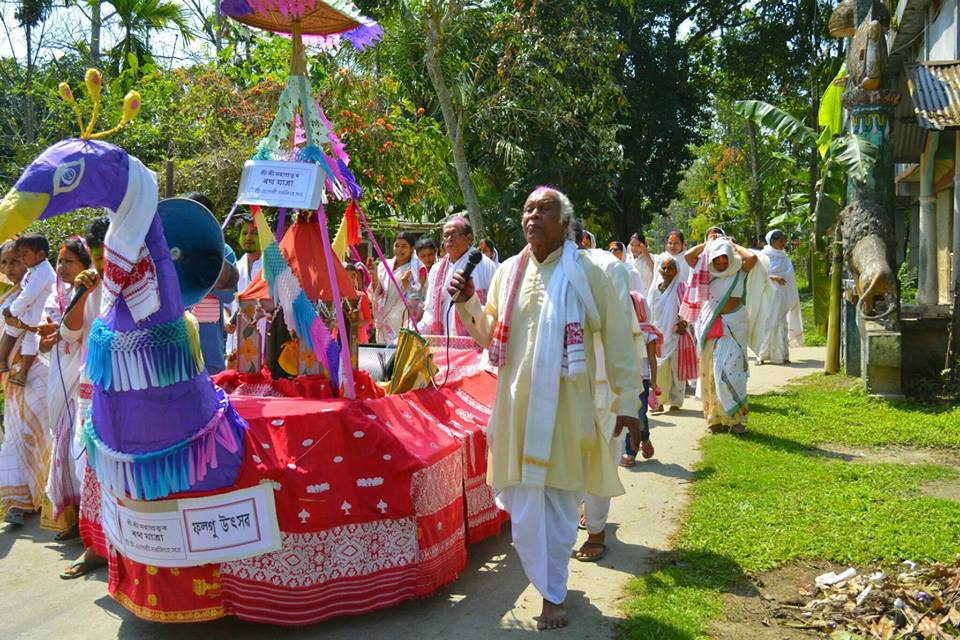 FALGU RATH YATRA (narasingha satra)